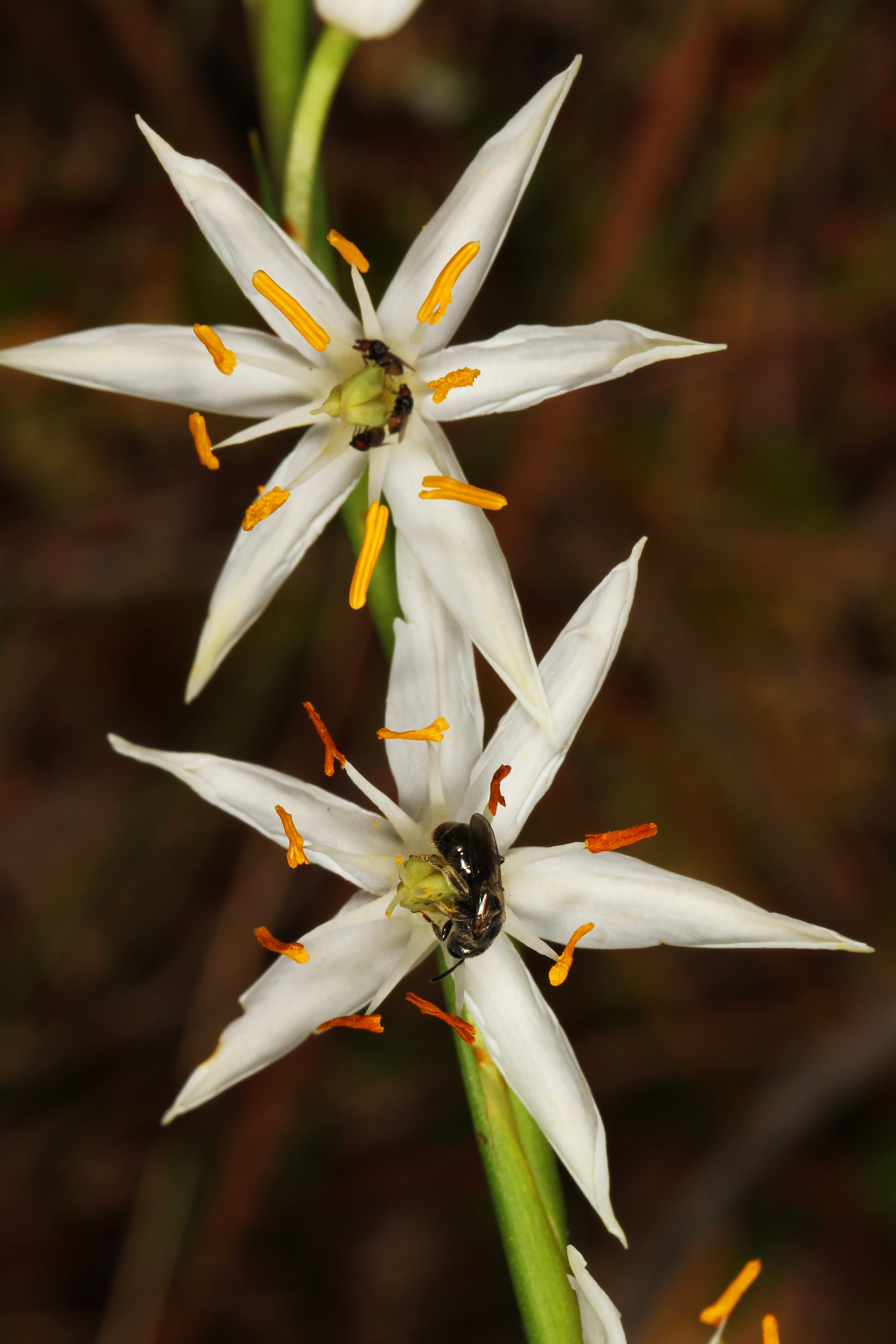 Rush Featherling - Pleea tenuifolia and critters, Green Swamp, Supply, North Carolina